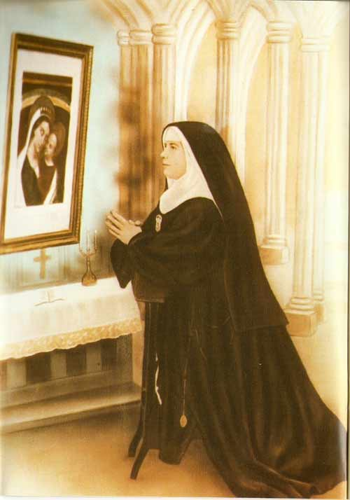 Old photograph with Enriqueta Rodon, foundress of Franciscans of the Good Advise, a religious congregation